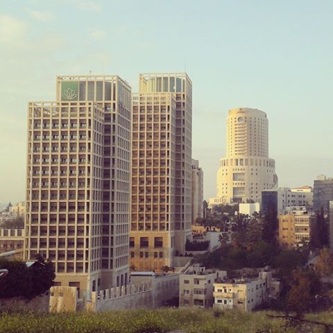 Amman in the morning...